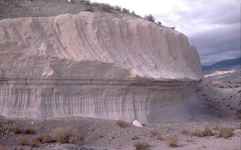 Photo showing two layers of Bishop tuff, eastern California, United States.USGS Caption: This outcrop is exposed in a rock quarry in Chalfant Valley about 25 km southwest of Long Valley Caldera. The two main units of the Bishop Tuff deposit are visible here: (1) the lower 5 m of the section consists of the pumice that fell to the ground (airfall pumice) downwind from the eruption; and (2) the upper 5-6 m of the section consists of the basal part of the pyroclastic flows that swept at hurricane speed away from the eruption. The thin dark "layers" just below the contact between the units are stains from an ancient groundwater table (manganese oxide stains).